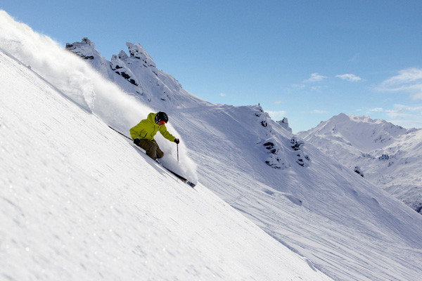 Skiing Treble Cone's summit